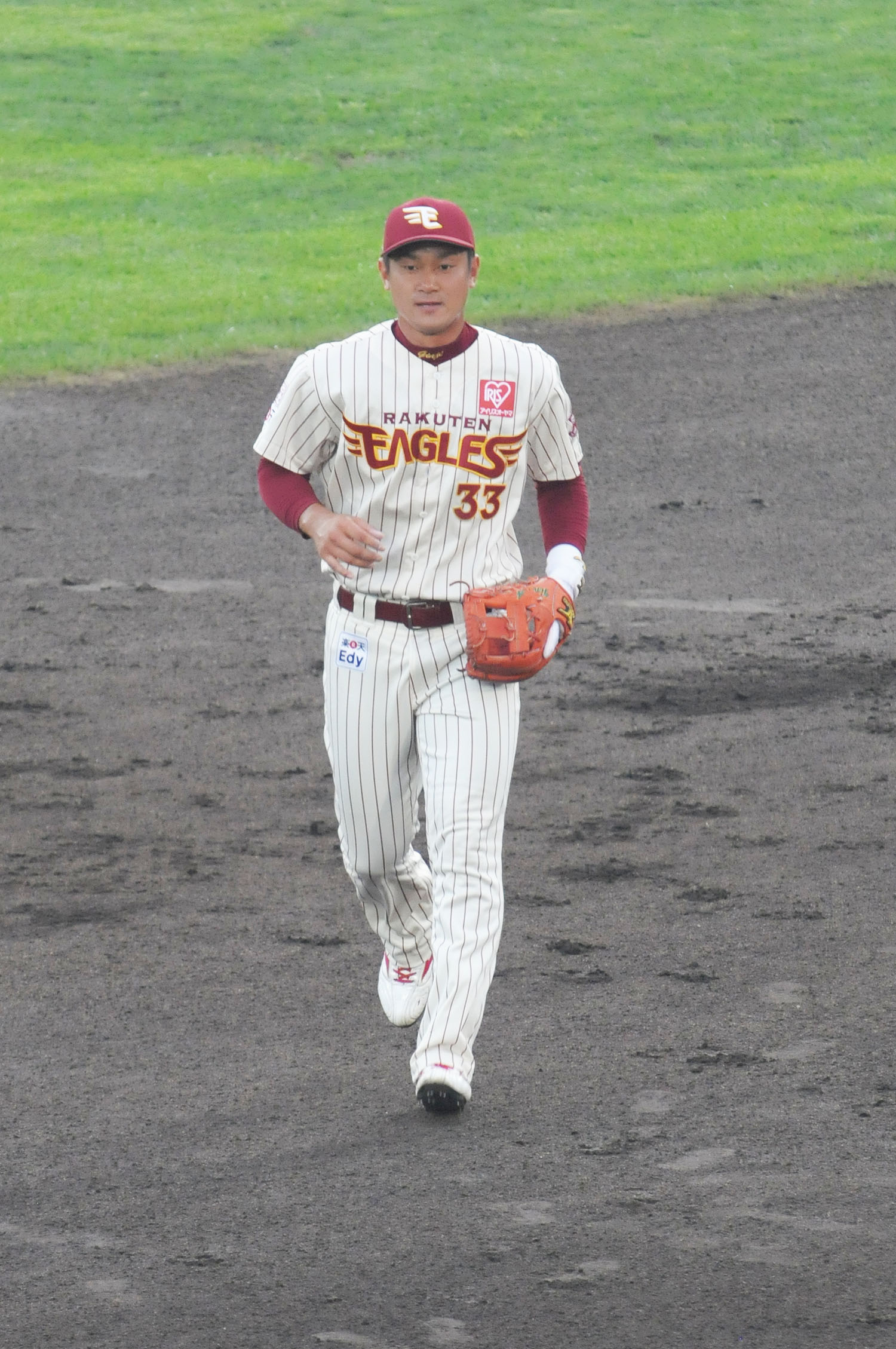 Ginji Akaminai, infielder of the Tohoku Rakuten Golden Eagles, at Akita Prefectural Baseball Stadium.